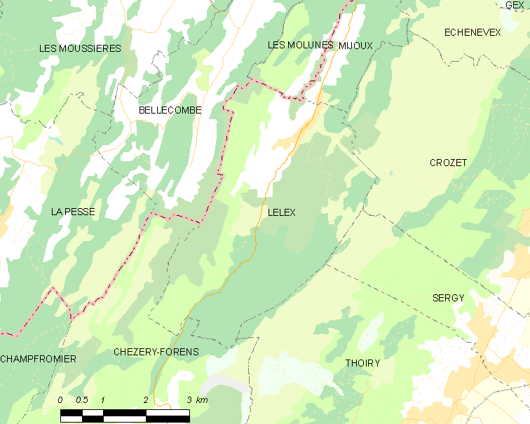 Map of French commune: Lélex Map commune FR insee code 01210.png